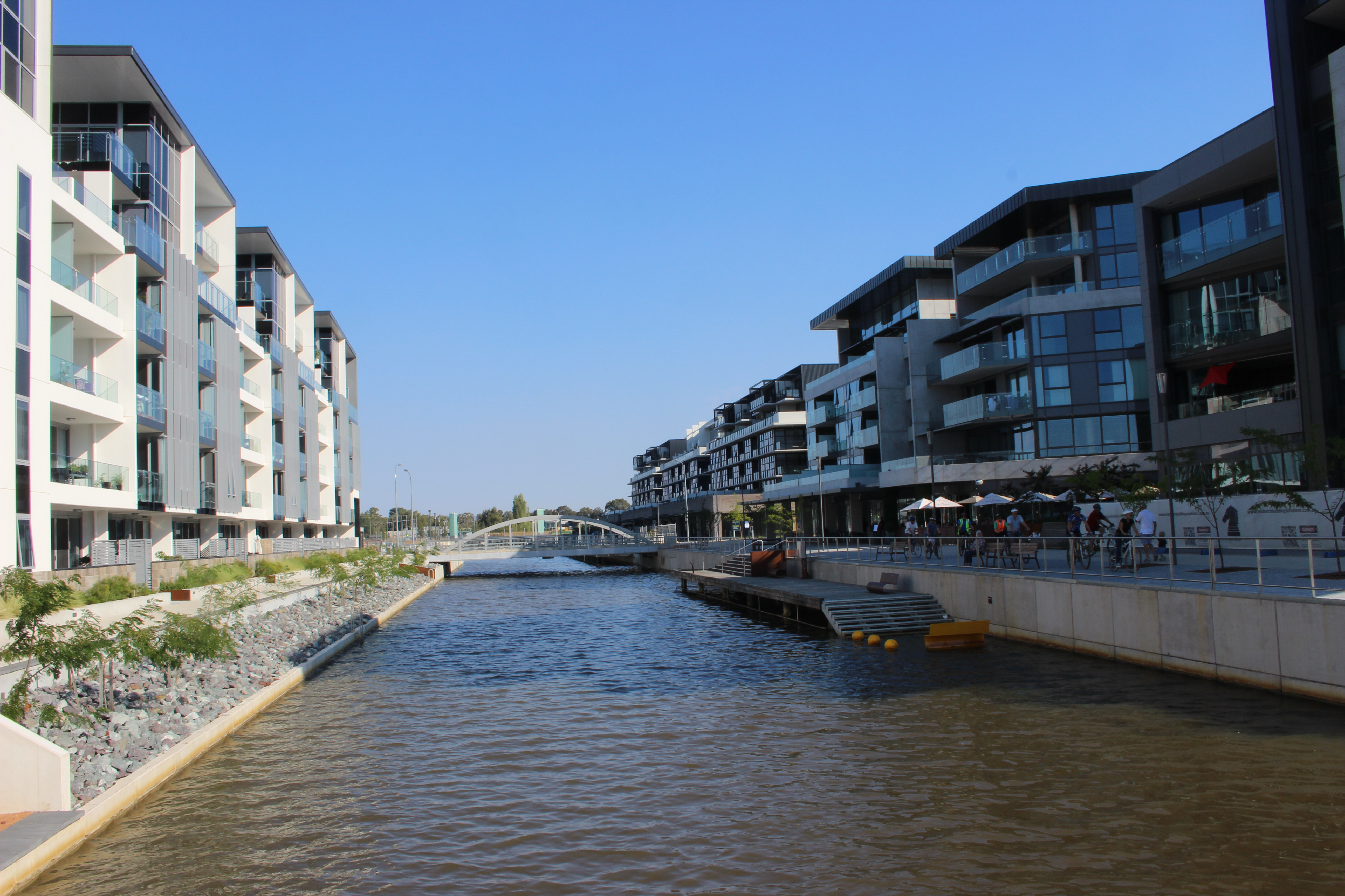 Kingston Foreshores